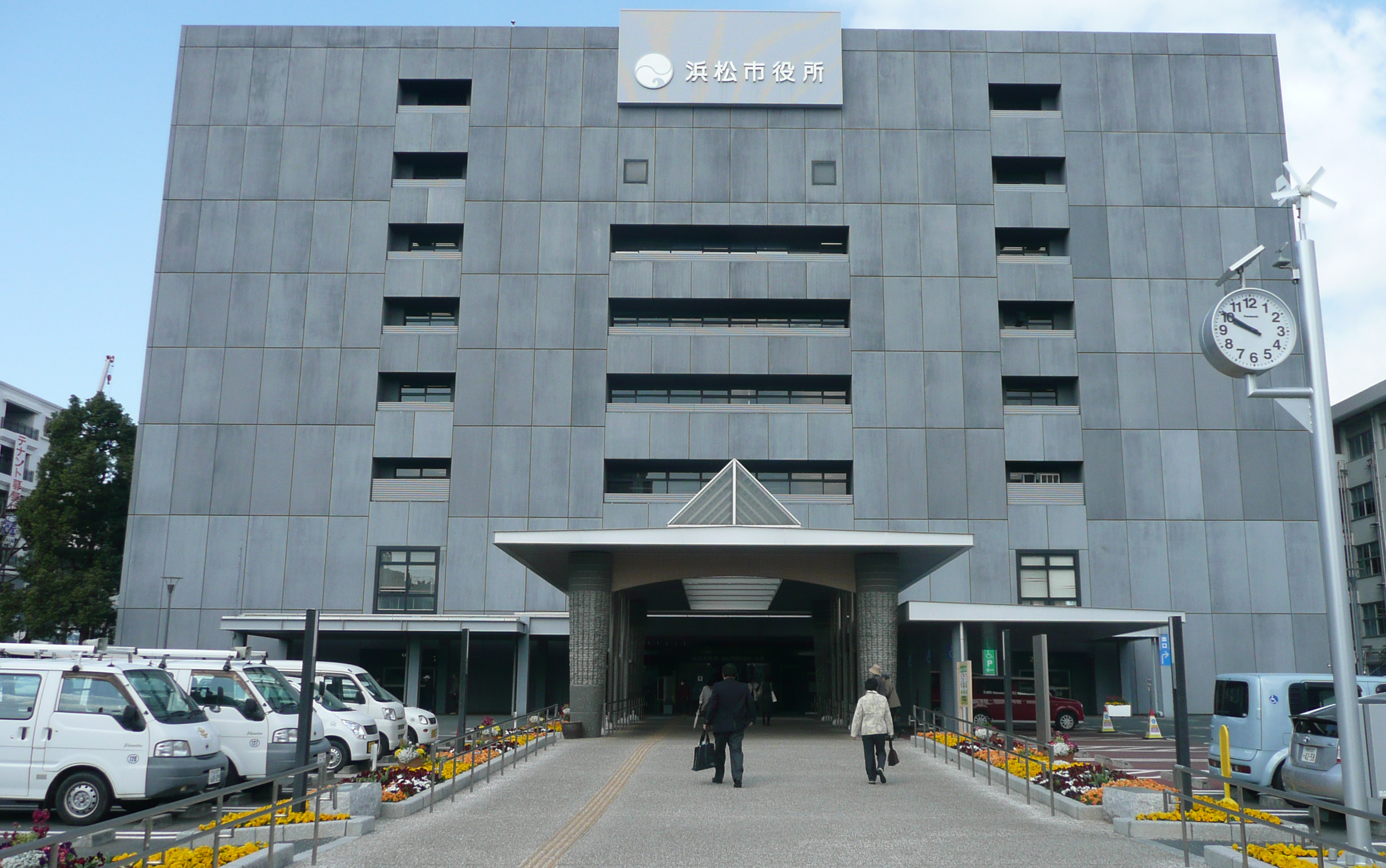 City Hall of Hamamatsu, Japan